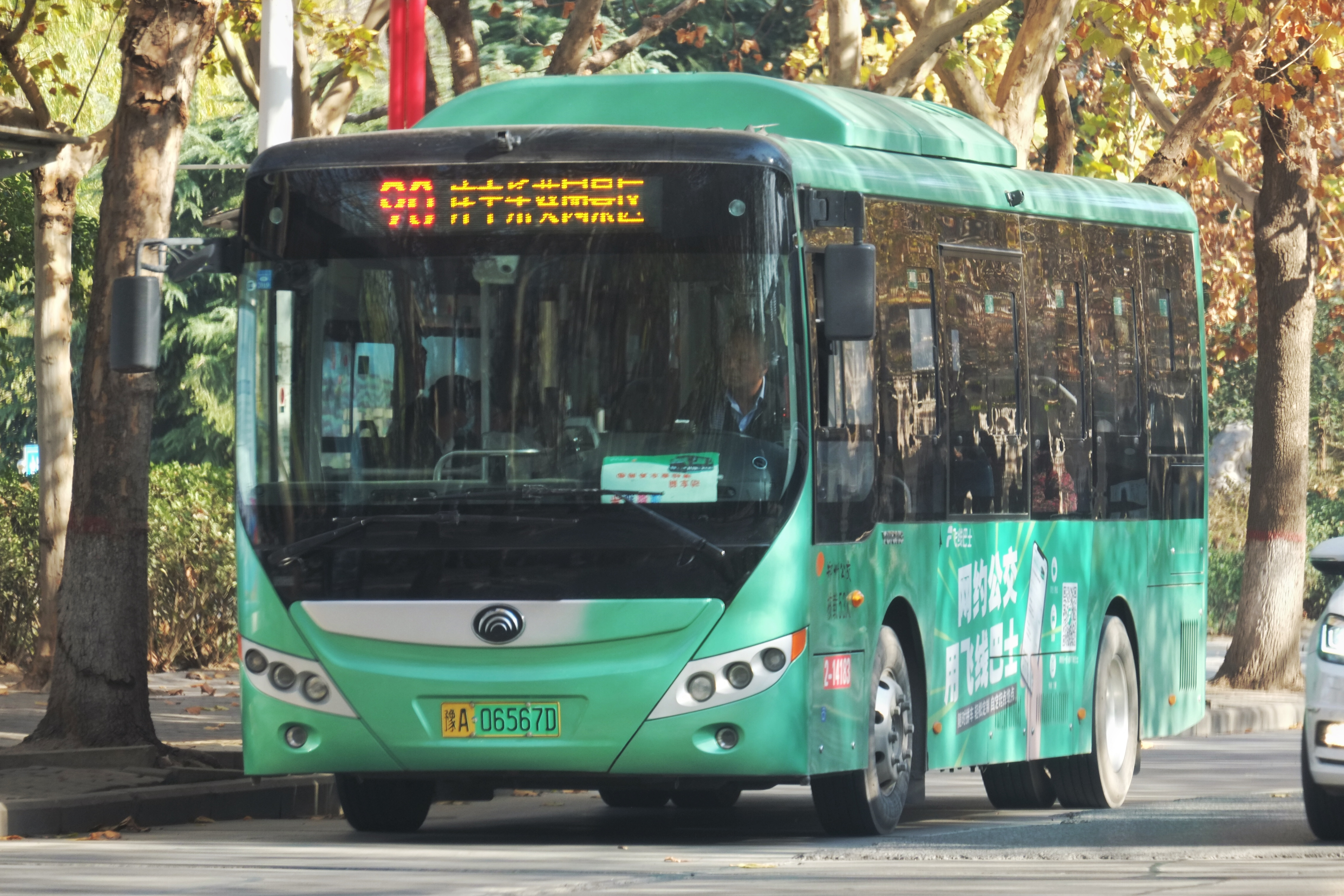 Yutong E8 on Zhengzhou Bus Route 90